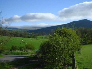 self taken